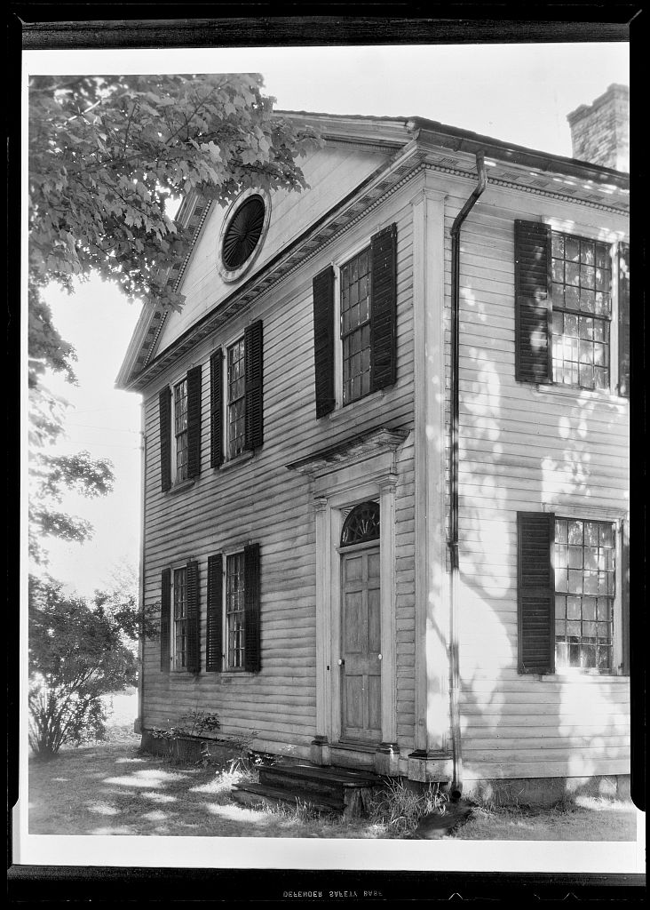 View of the front exterior of the Cornelia Billings House, Hatfield, Hampshire County, Massachusetts. Historic American Buildings Survey, Library of Congress, Washington, D. C.